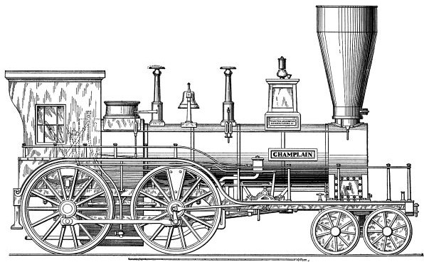 The Champlain locomotive, built by the Taunton Locomotive Works, Taunton, Massachusetts, ca.1849 for the Hudson River Railroad